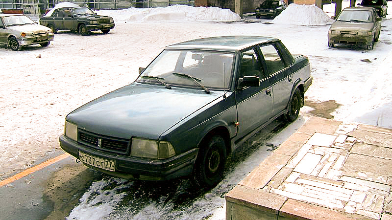 AZLK-2142 "Moskvitch" (prototype of ALEKO sedan version). Autolant of Lenin`s Komsomol. Model-2142 (prototype).